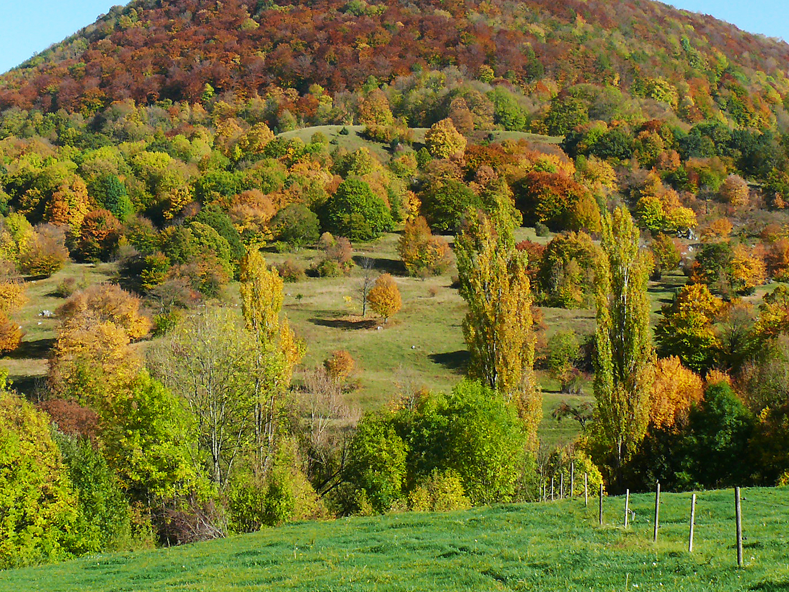 Eichhalde; Bissinger, nature reserve at the northern border of the Swabian Alb. Eichhalde is one of the most valiable heaths of all of the Swabian Alb. There are plants, which are rare and endangered species in Central Europe. As nowadays sheep grazing almost vanished, bushes and trees are taking over.